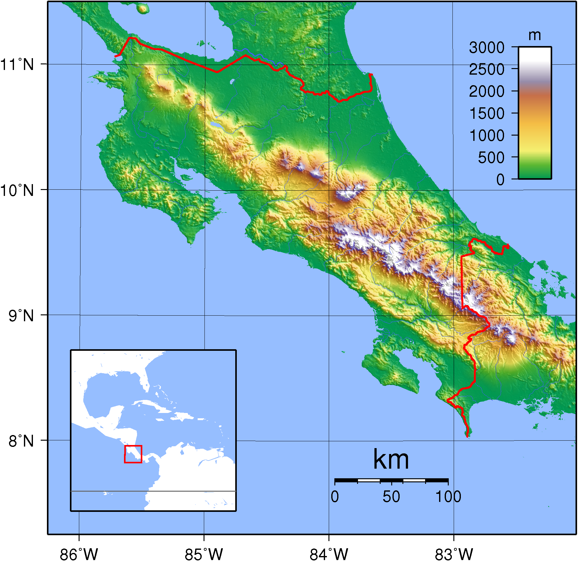 Topographic map of Costa Rica. Created with GMT from SRTM data.